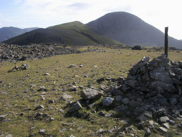 Brandreth Summit Brandreth Summit Cairn and Lonsdale boundary post with in the distance Green and Great Gable